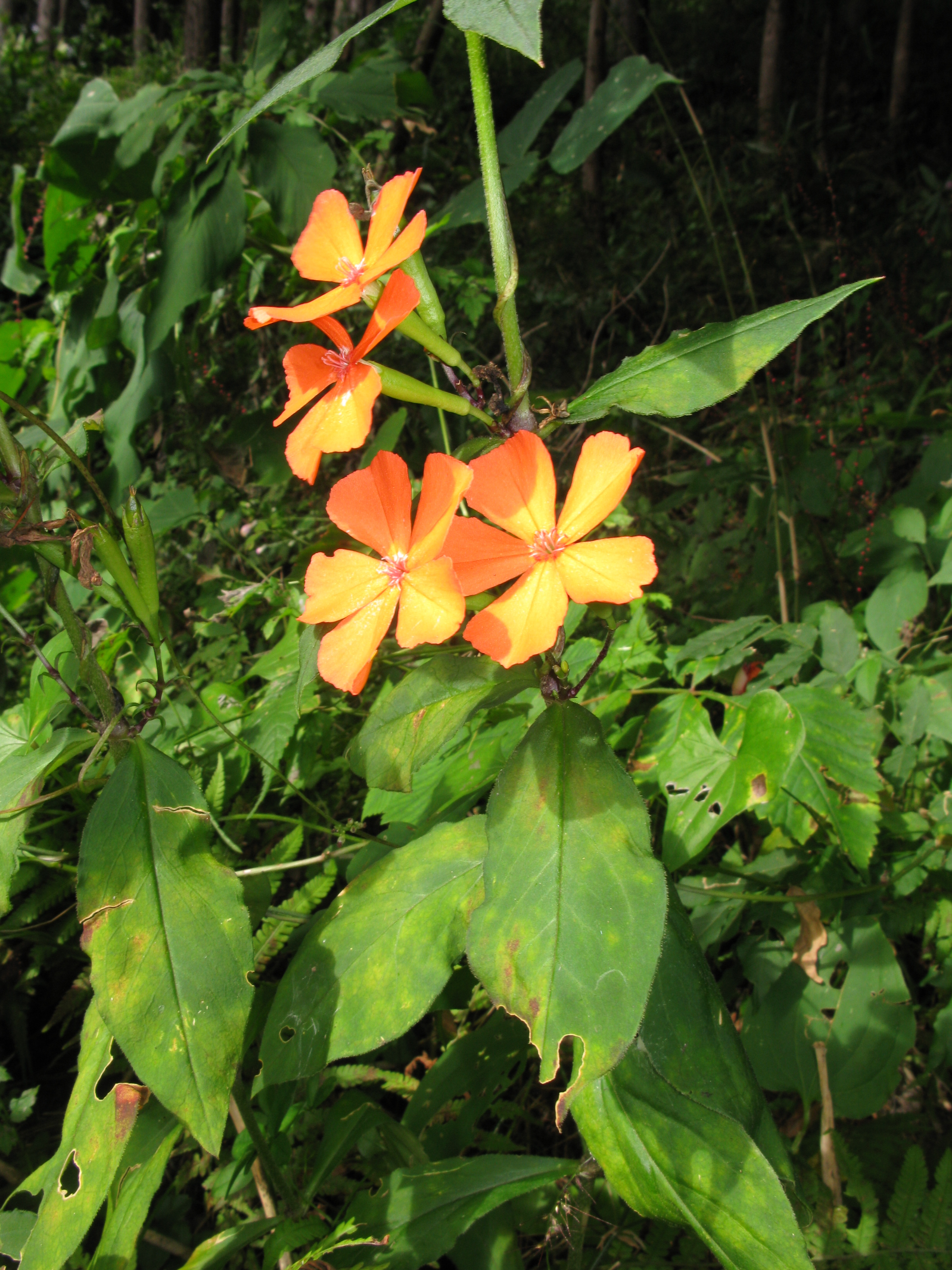 Lychnis miqueliana ,Aizu area, Fukushima pref., Japan